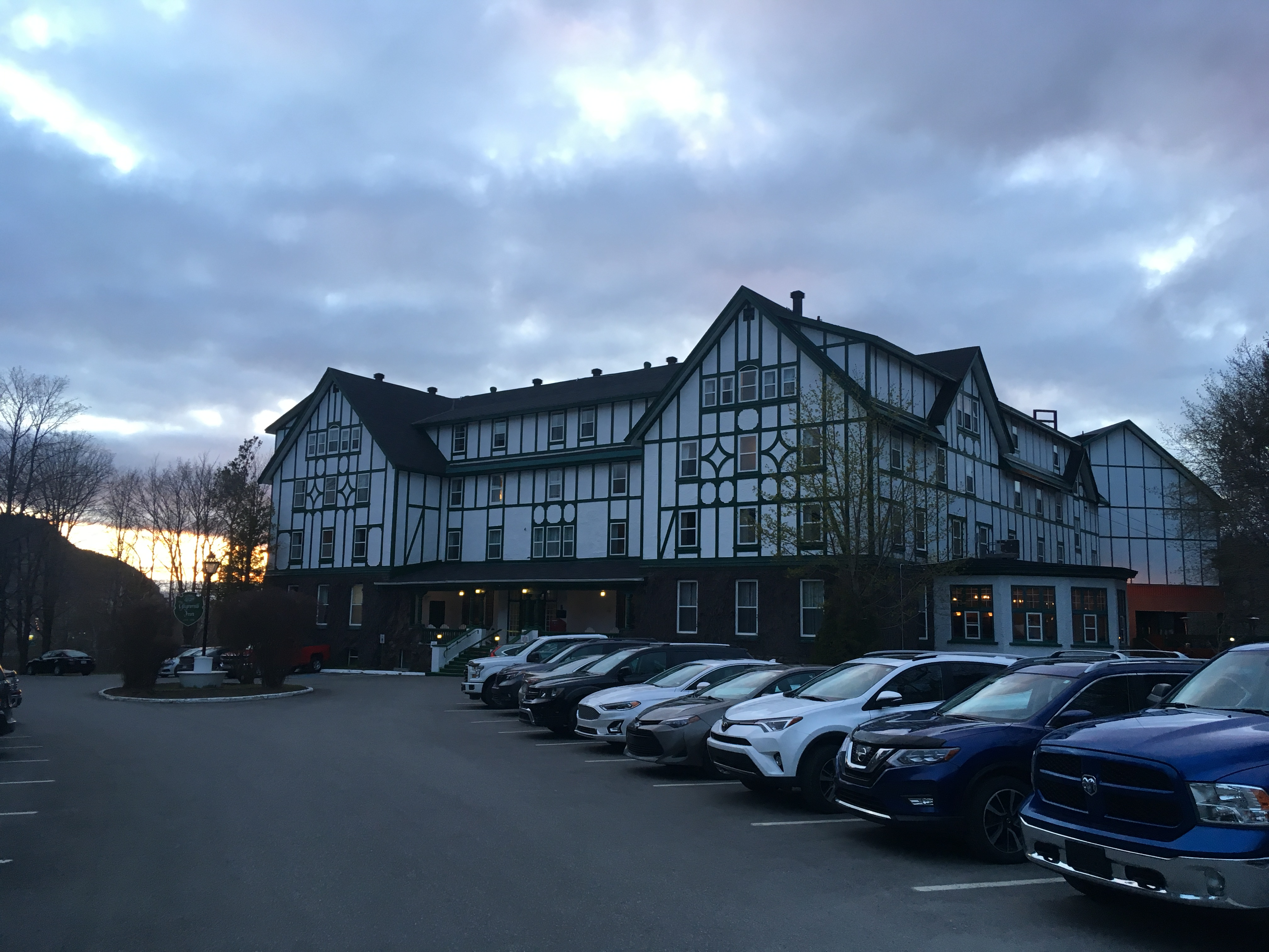 Glynmill Inn at sunset in Corner Brook, NL.